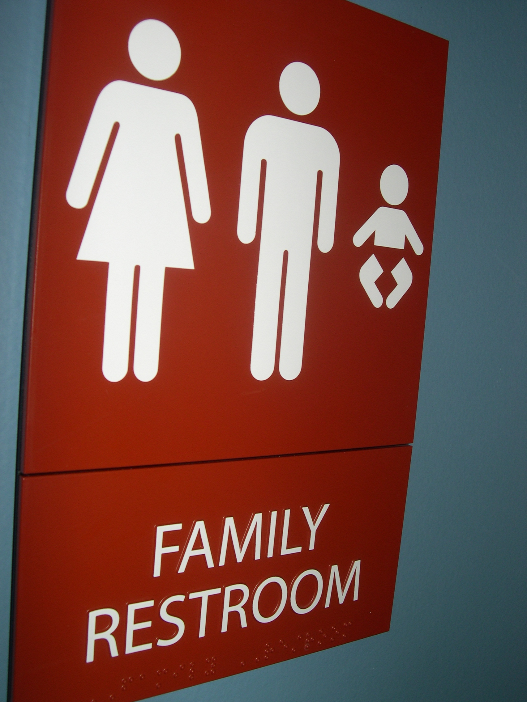 Family Bathroom sign.